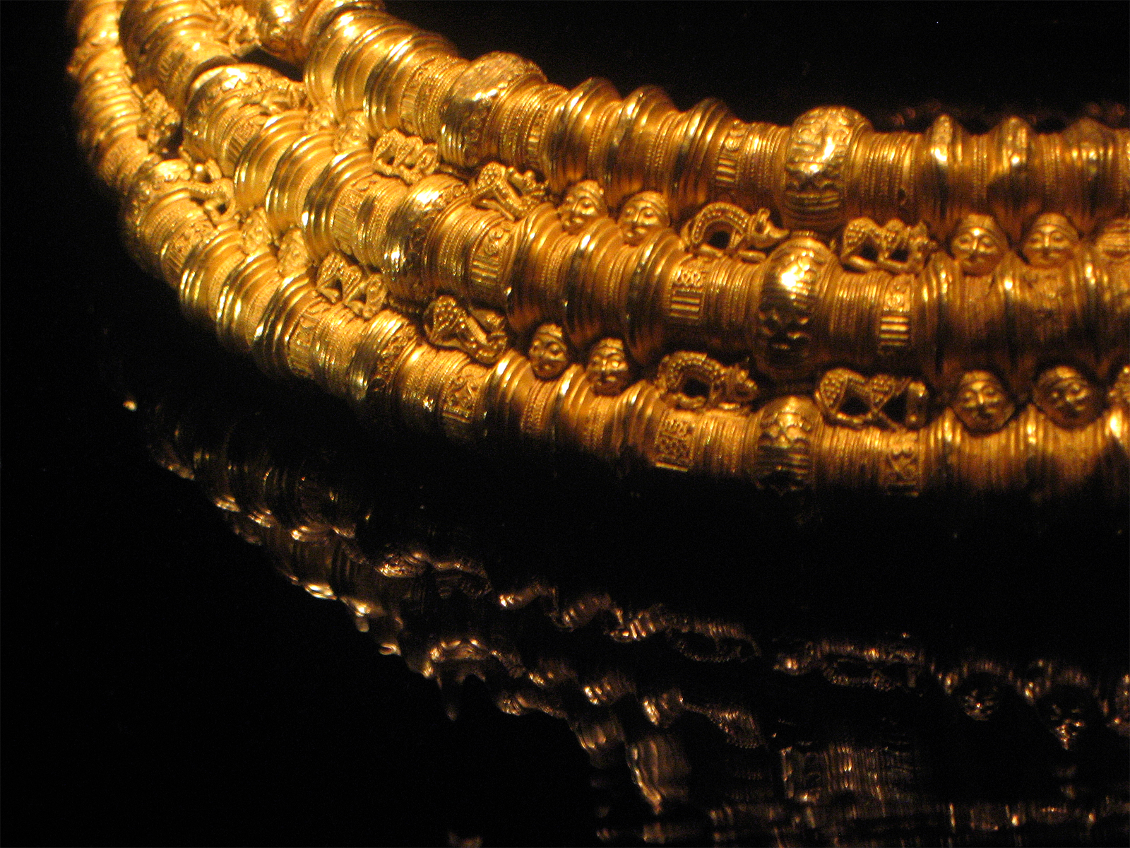 Golden neck rings from Ålleberg, Sweden. Dates to the Migration period. On display at The Swedish Museum of National Antiquities.